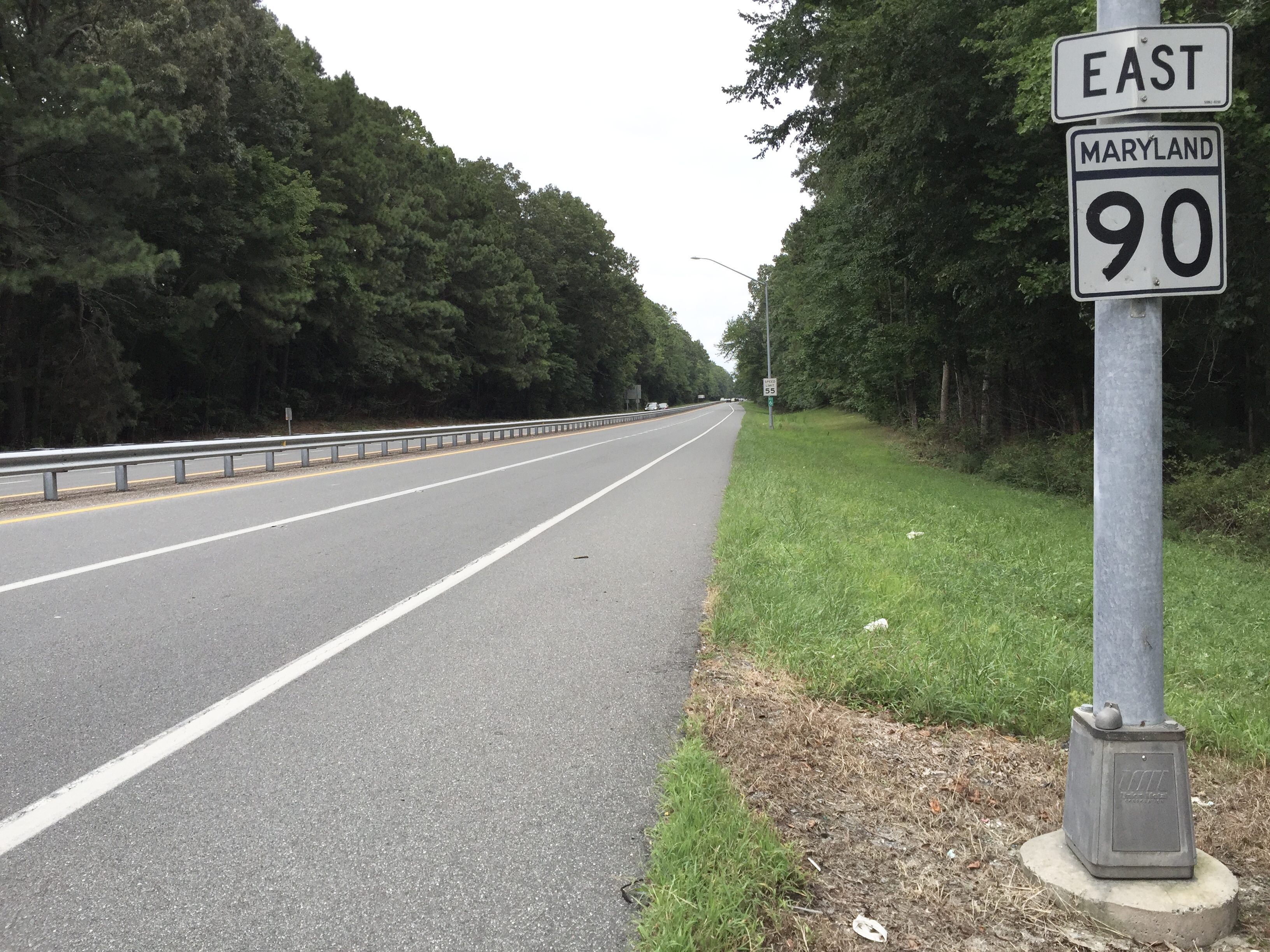 View east along Maryland State Route 90 (Ocean City Expressway) at Maryland State Route 589 (Race Track Road) in Ocean Pines, Worcester County, Maryland